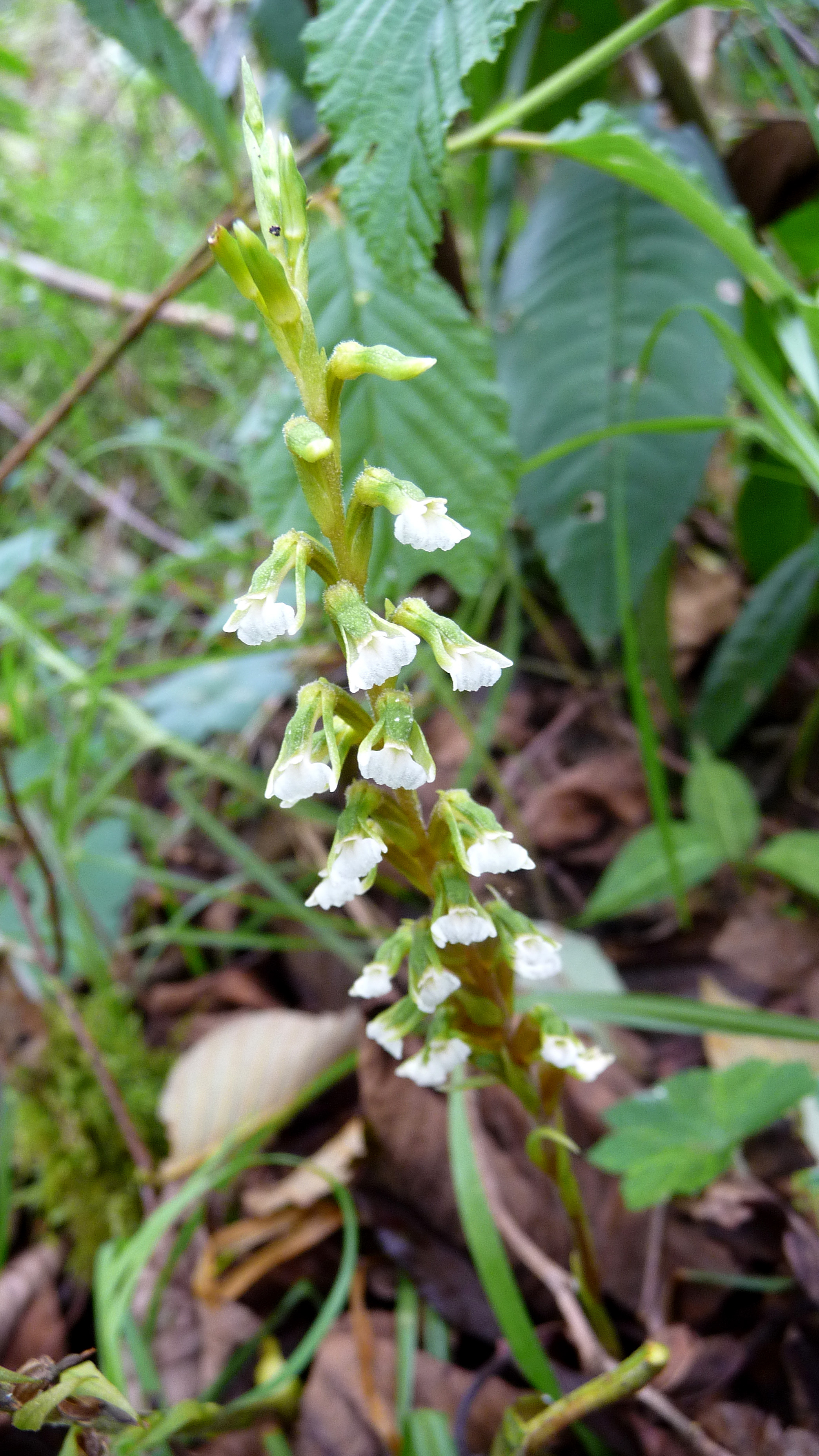 helleborine sp.? Orchidacea?